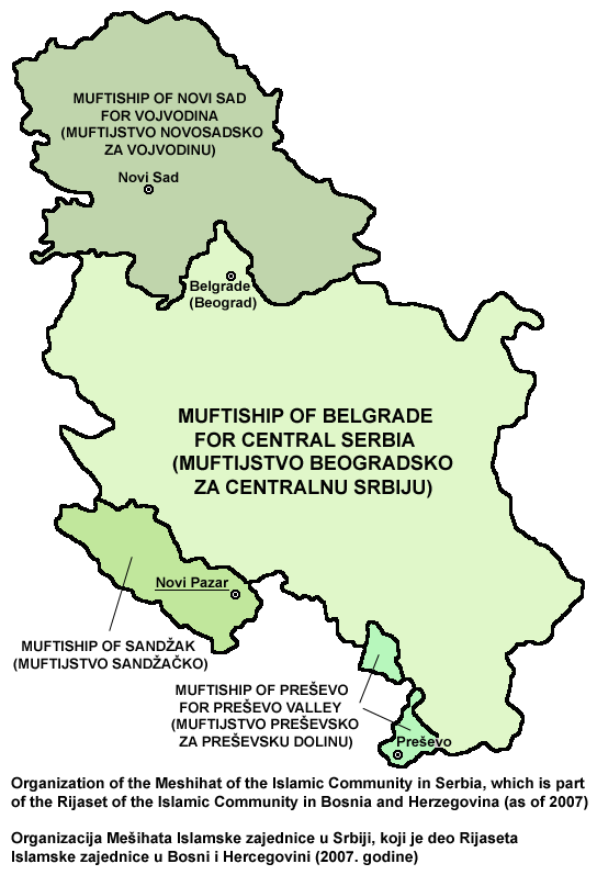 Organization of the Meshihat of the Islamic Community in Serbia, which is part of the Rijaset of the Islamic Community in Bosnia and Herzegovina (as of 2007). Srpski /